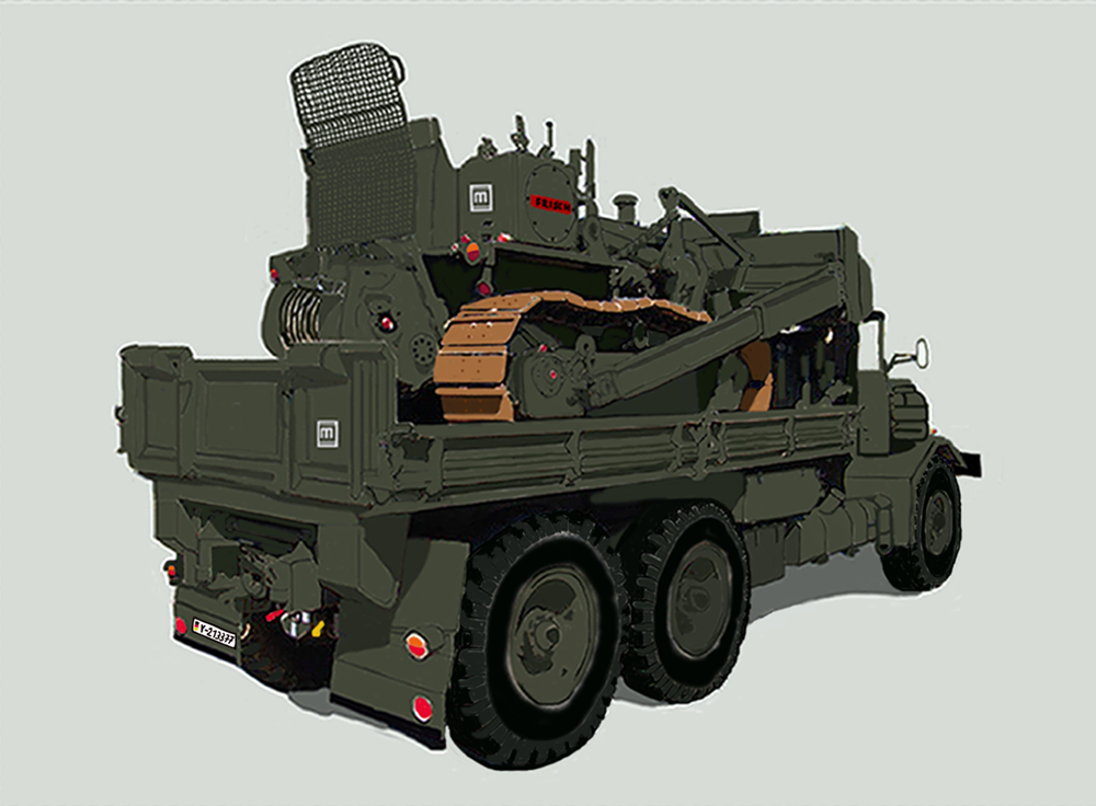 German Army Faun Dozer transportation vehicle (Dozer is Deutz/Frisch DK 60)